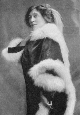 Lillie Langtry (Mrs Gerald de Bathe)